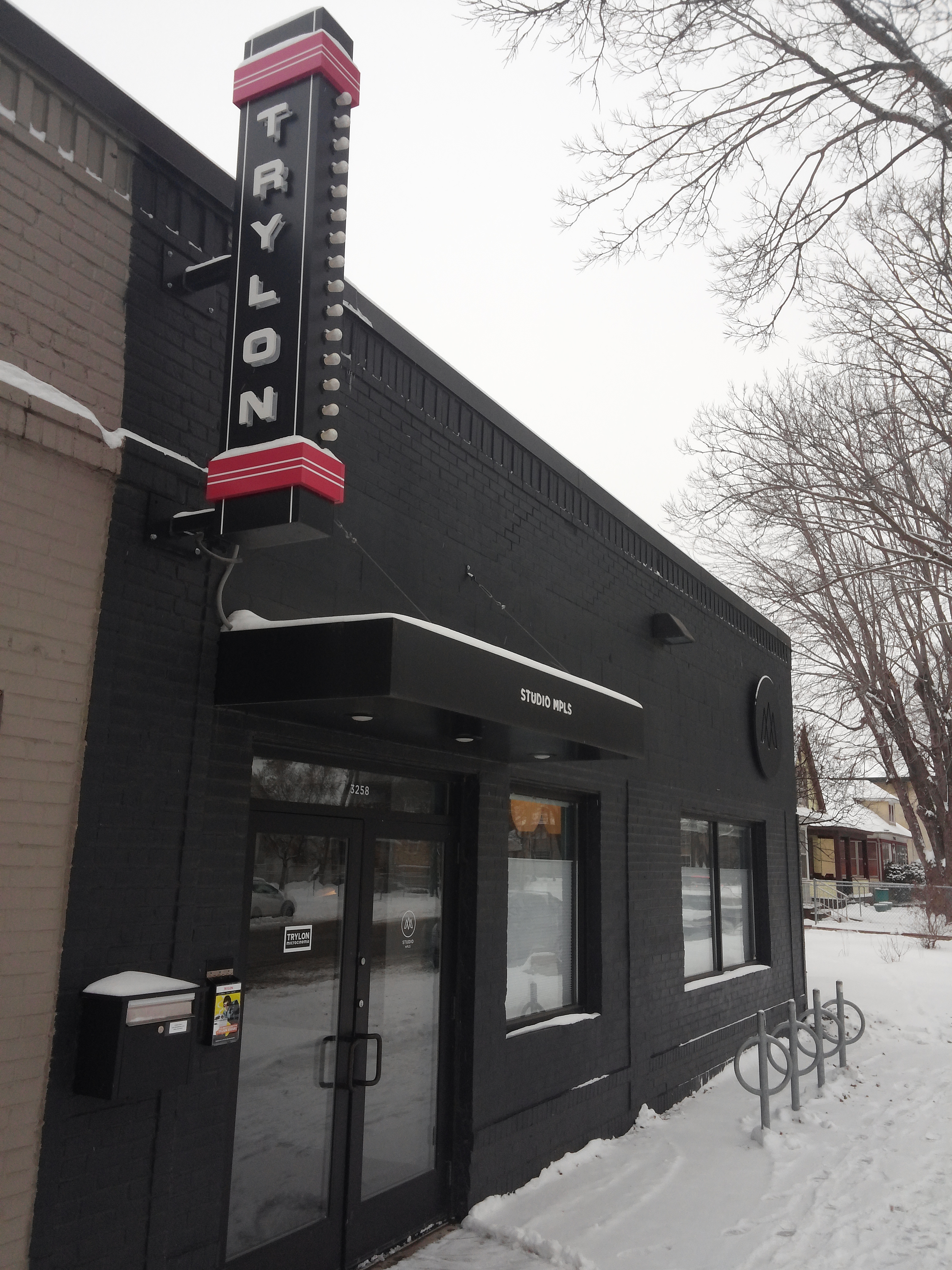 The Trylon Microcinema in Minneapolis, Minnesota, US.